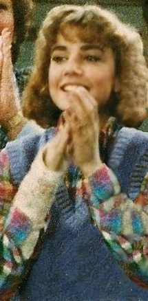 An attempt to patchwork rest of picture in